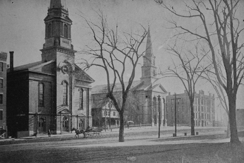 The churches of Salem Square in Worcester, around 1895. Image from Picturesque Worcester (1895).